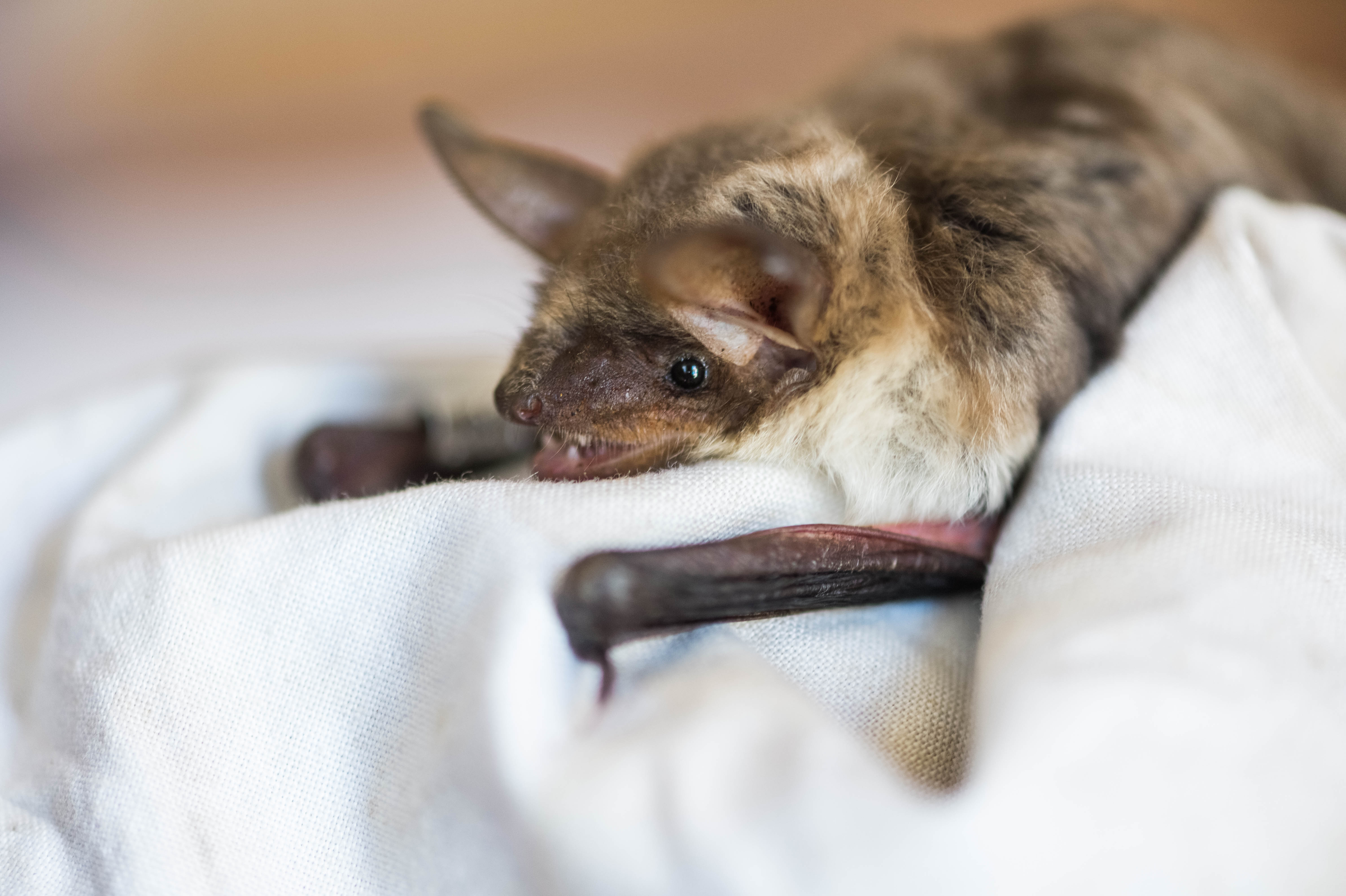 Myotis myotis, image taken in Velká and Malá Amerika old quarry, Czech republic